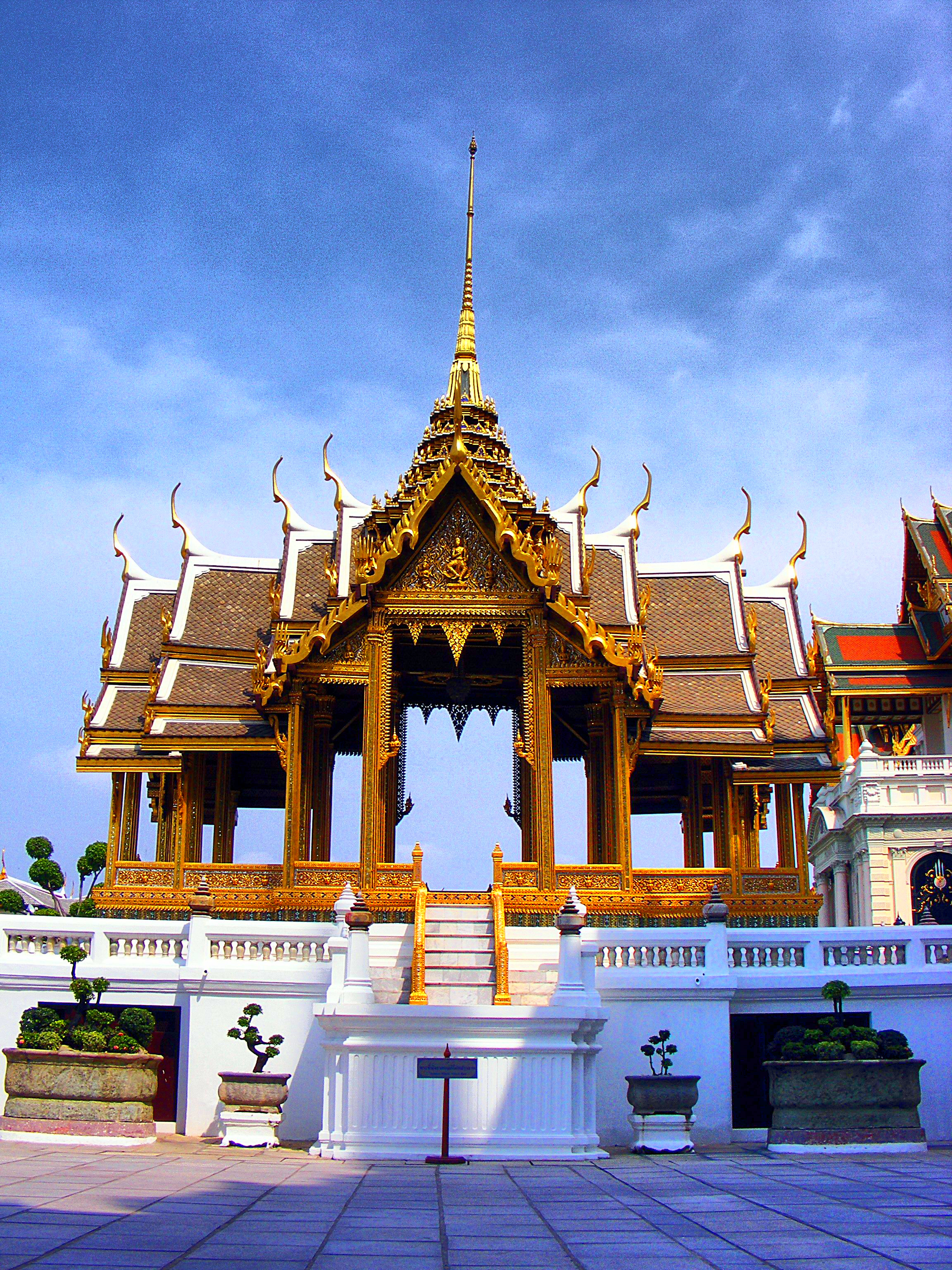 The Grand Palace of ThailandLocation: Bangkok, Thailand.